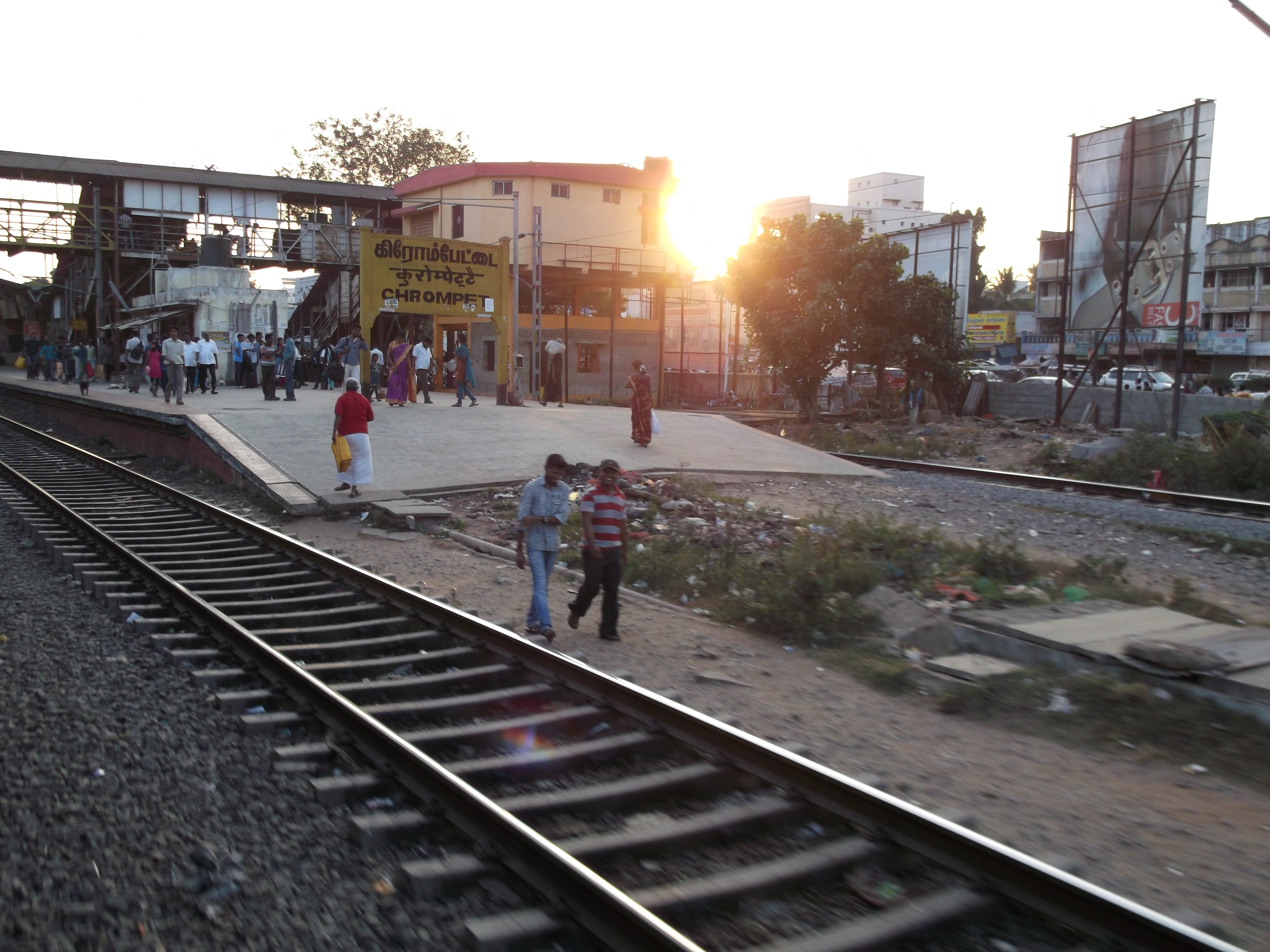 Chromepet railway station, taken on 27-Jan-2013, 6:00 pm